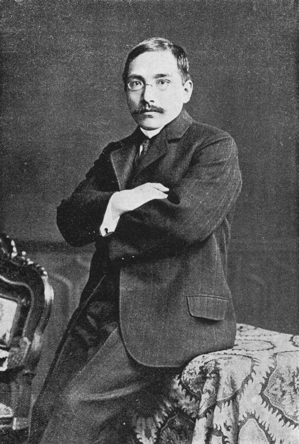 Mr. Shigejirō Matsuura, councillor of the Department of Education.